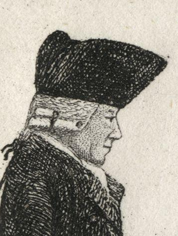 George Gordon; John Grieve; George Robertson, by John Kay (died 1826). All images in this batch have been confirmed as author died before 1939 according to the official death date listed by the NPG.